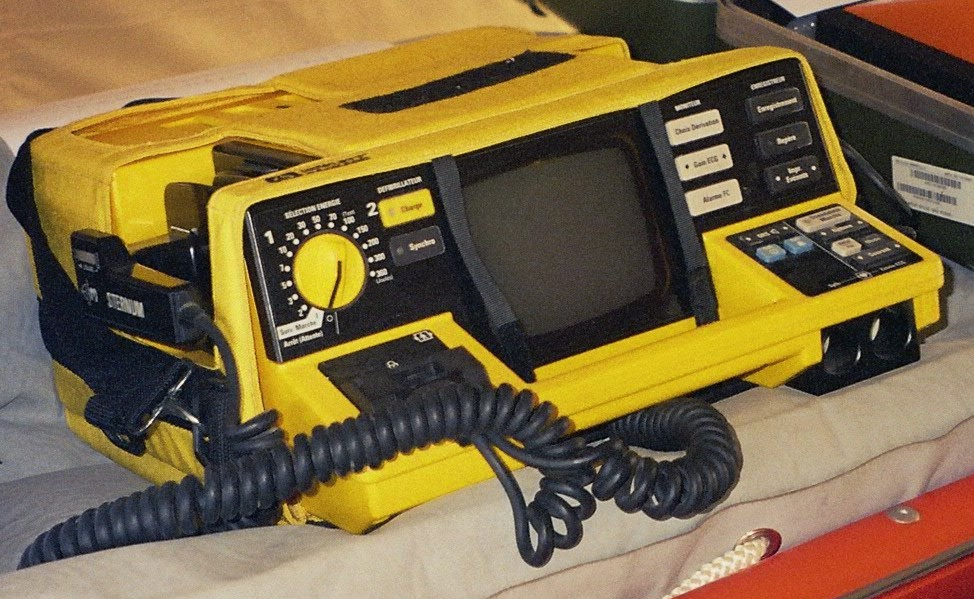 Nation/Defense days, Esplanade des Invalides, Paris, France, September 24-25, 2005: defibrillator